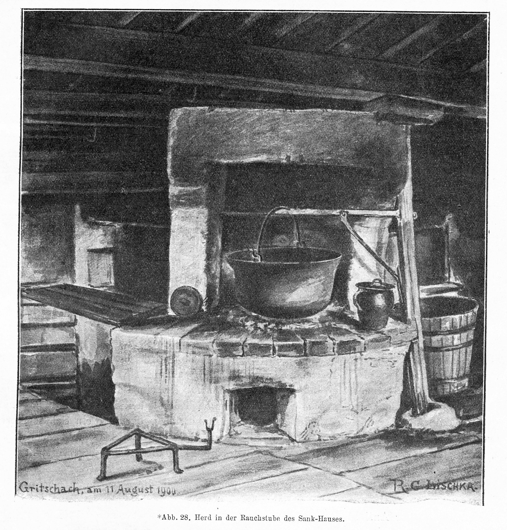 Page 51 of the binding of Johann Reinhard Bünker fromSopron: The farmhouse near Lake Millstatt. Vienna, 1902. Reprinted from Volume XXXII [Der dritten Folge Band II] der „Mittheilungen der Anthropologischen Gesellschaft in Wien“, Wien, 1902. In self-publishers of the Anthropological Society of Vienna. Print by Friedrich Jasper in Vienna. People Ethnography essay in two parts on the farm architecture (13 farm types, inventory and primitive dwellings as on pastures) with hand-drawn illustrations ("junior cancellation" among the rest by academic painters Robert C. Lischka and Franz Storno jun. in Vienna) from around lake Millstatt (Millstätter See) community of Seeboden / Spittal an der Drau / Carinthia / Austria / EU.